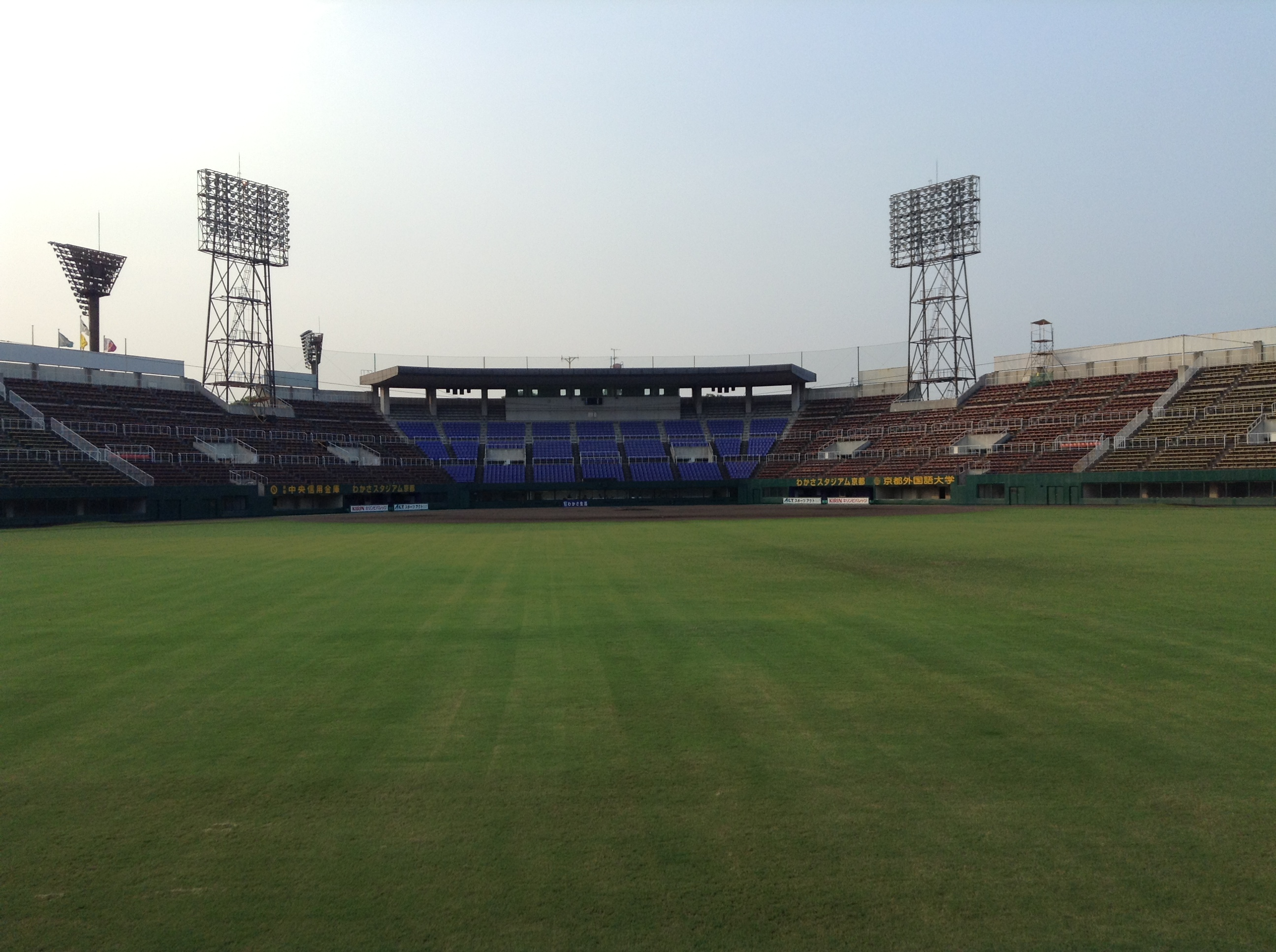 seats behind home plate of Kyoto Nishikyogoku baseball stadium.